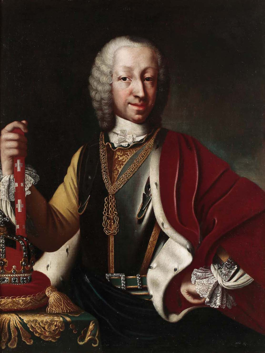 Portrait of Charles Emmanuel III of Sardinia (1701-1773)